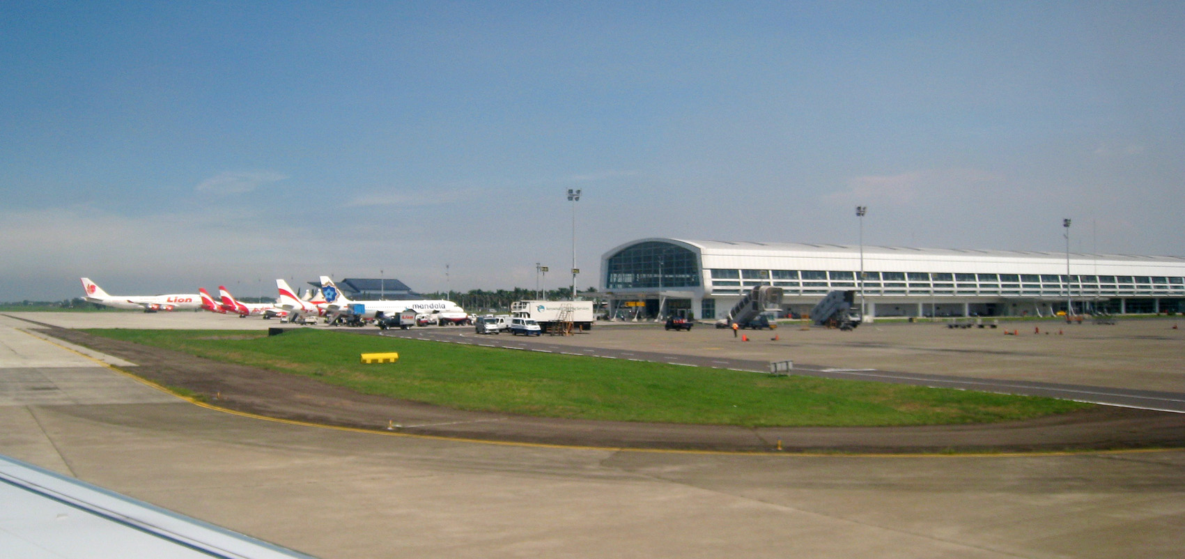 Soekarno-Hatta International Airport Terminal 3 seen from the taxiway, Jakarta, Indonesia.